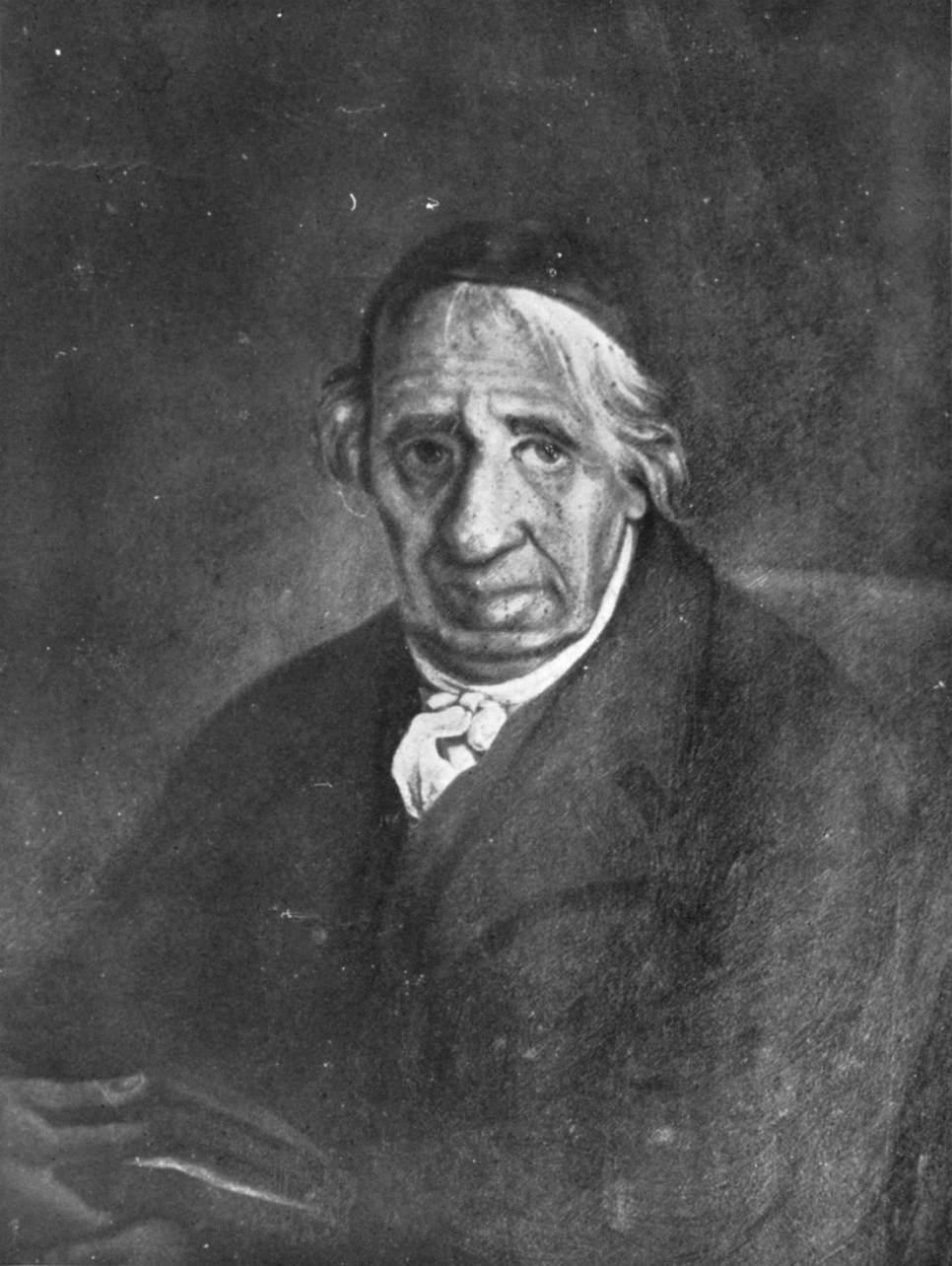 Portrait of Rev. Francis Neale, S.J.